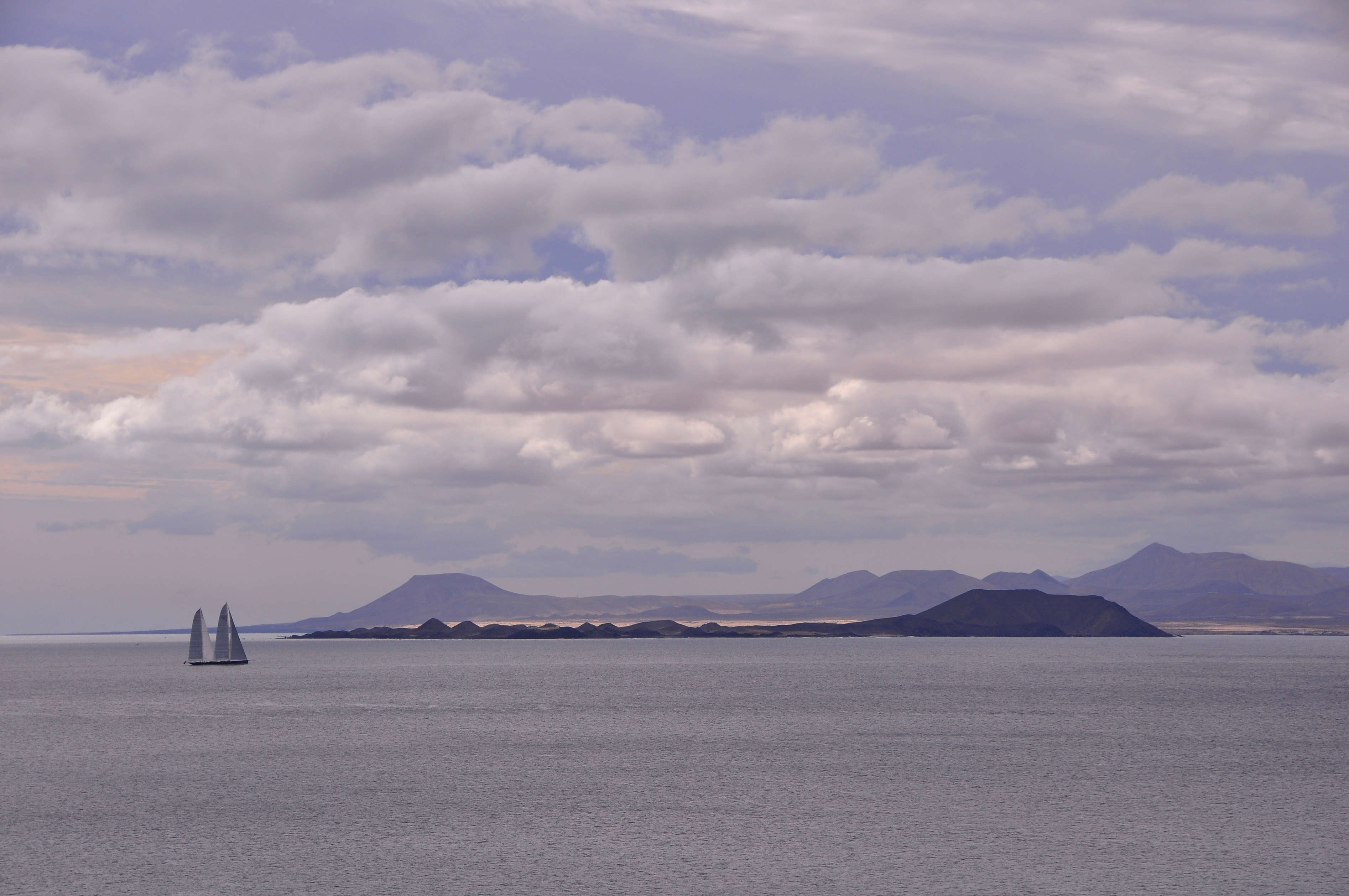 The island of Lobos (Canary Islands). In the background: the island of Fuerteventura.